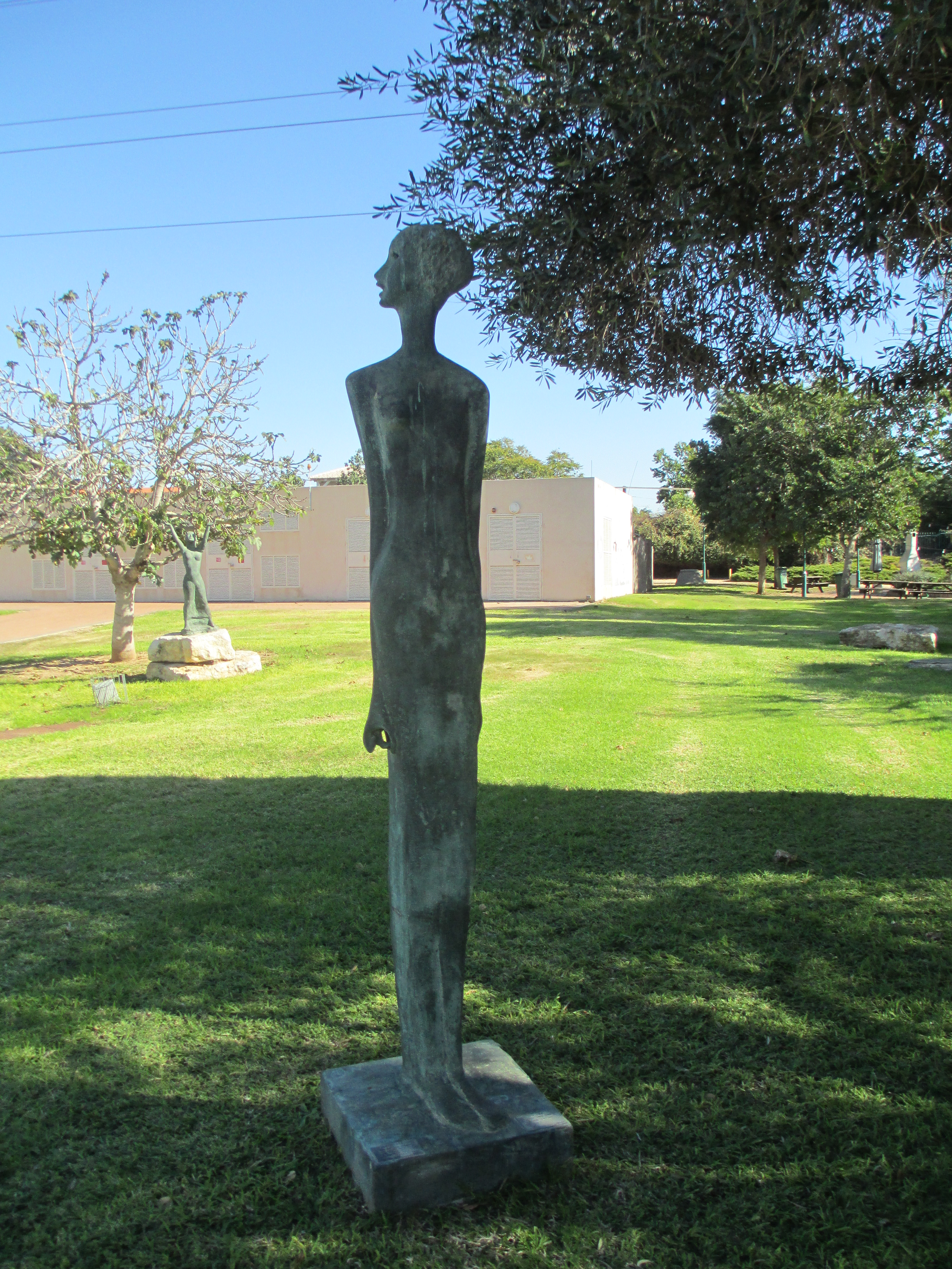 Lot's Wife by Kaete Ephraim Marcus